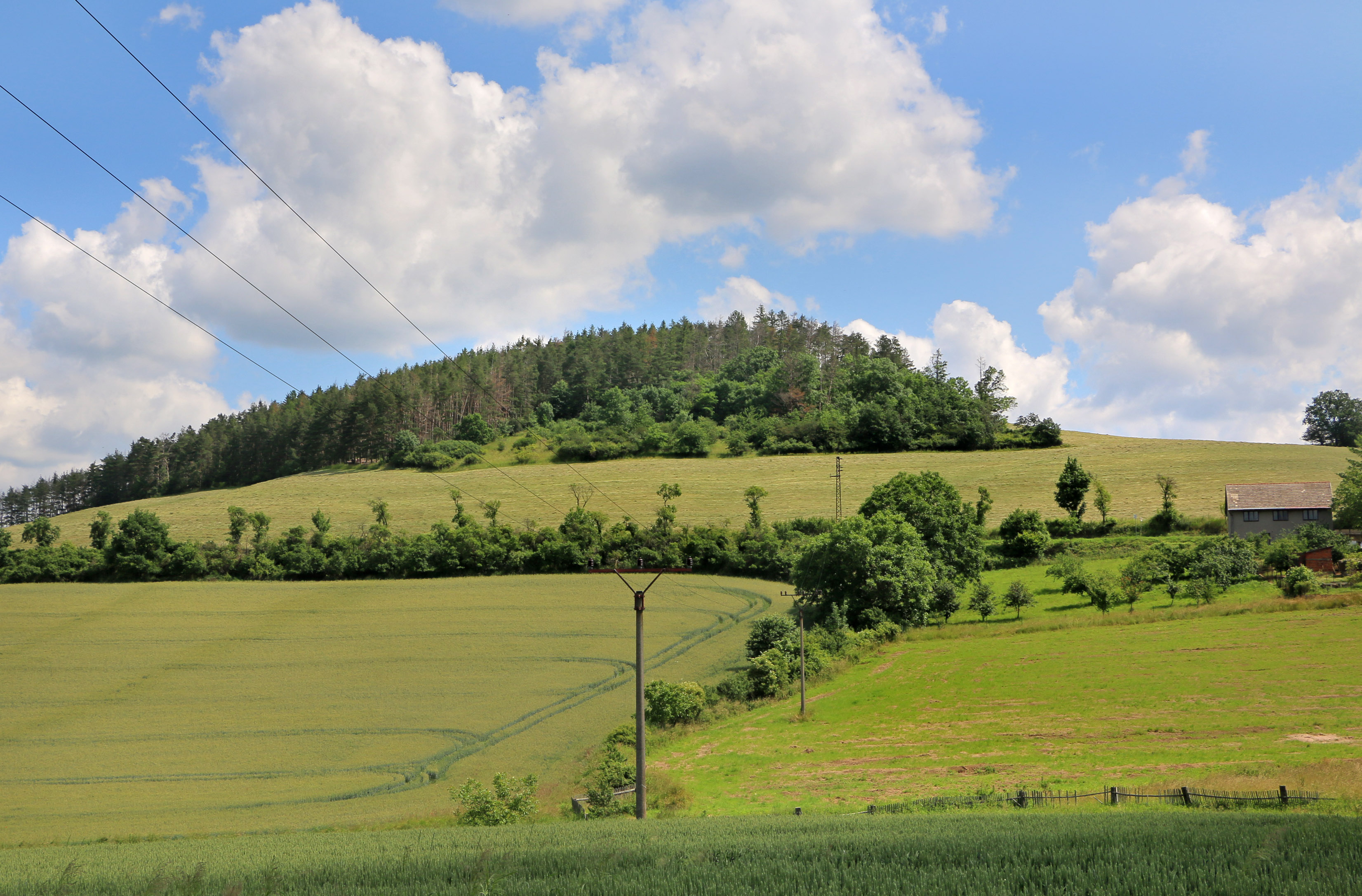 Vepří hill by Přestavlky u Čerčan, Czech Republic.